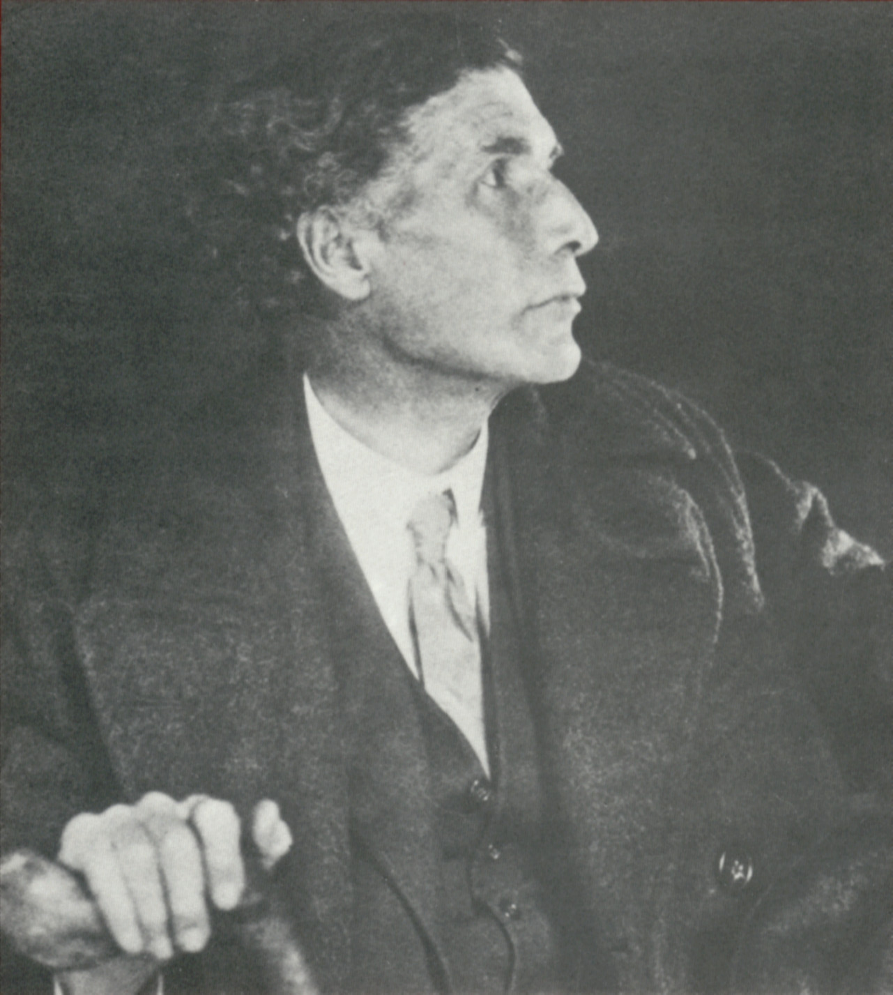 British writer, lecturer and philosopher John Cowper Powys